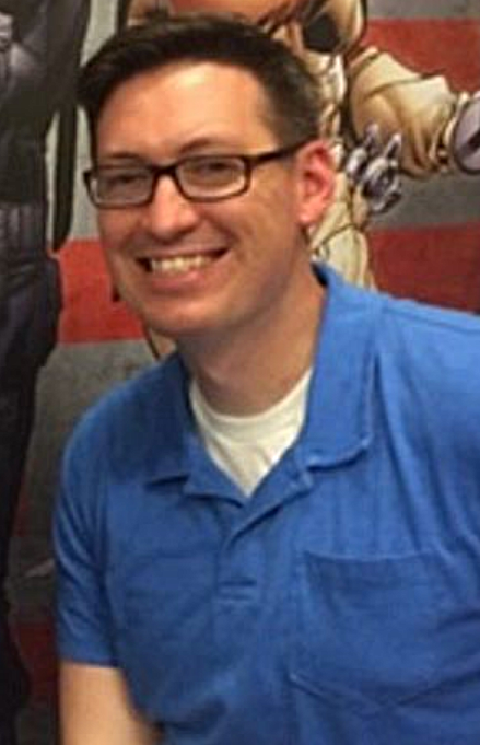 Comic book artist Robert Atkins at Killen Enterprises in 2016 for Free Comic Book Day